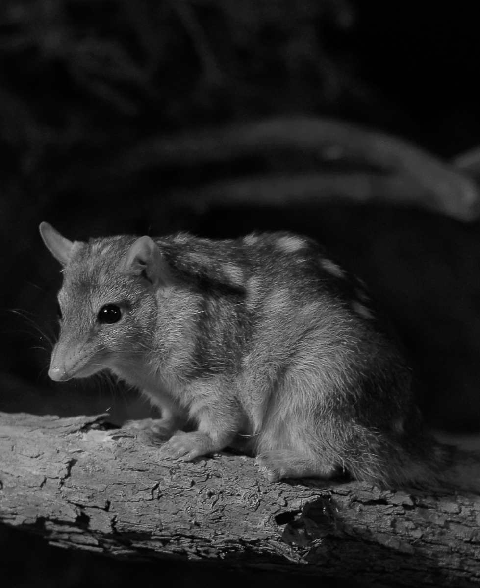 Northern quoll, Dasyurus hallucatus